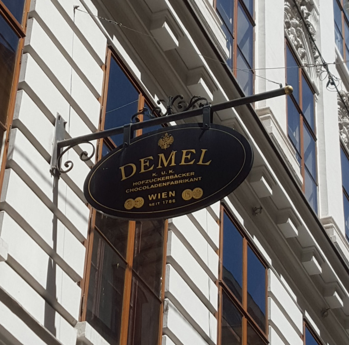 Exterior sign of Demel pastry shop in Vienna, Austria